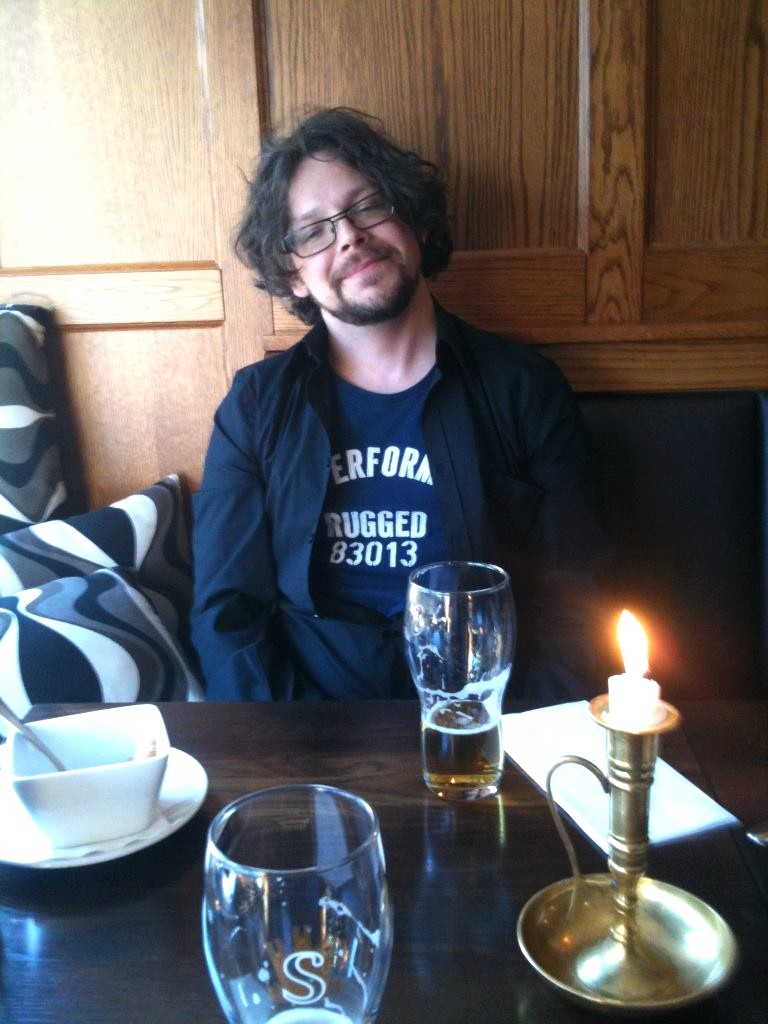 Swedish writer (novelist) and environmentalist Ulf Söderström, 1964-2017